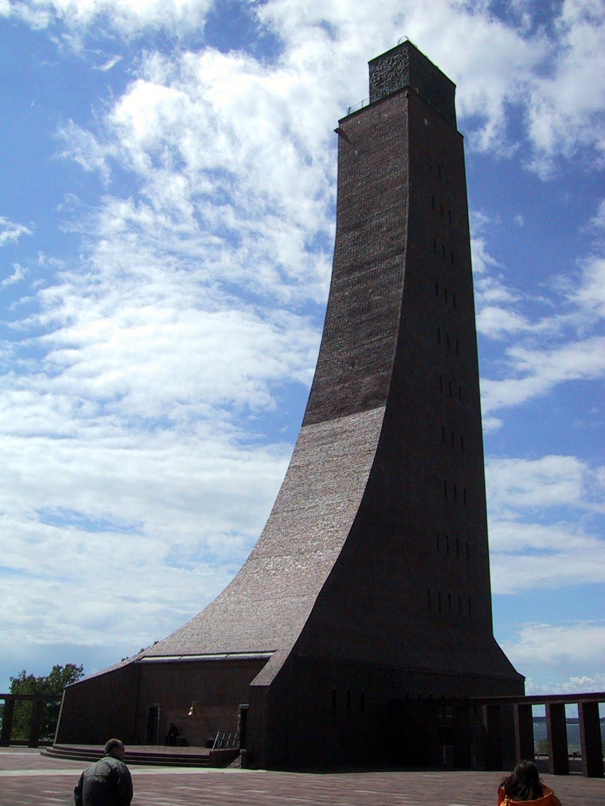 Ansicht des Marineehrenmal Laboe : Laboe Naval Memorial Source: own work Date: June 2004, Laboe, Germany Author: Maschinenjunge Licence: GFDL, cc-by 3.0